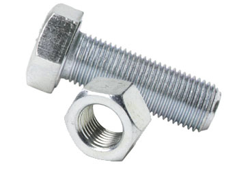 Bolts